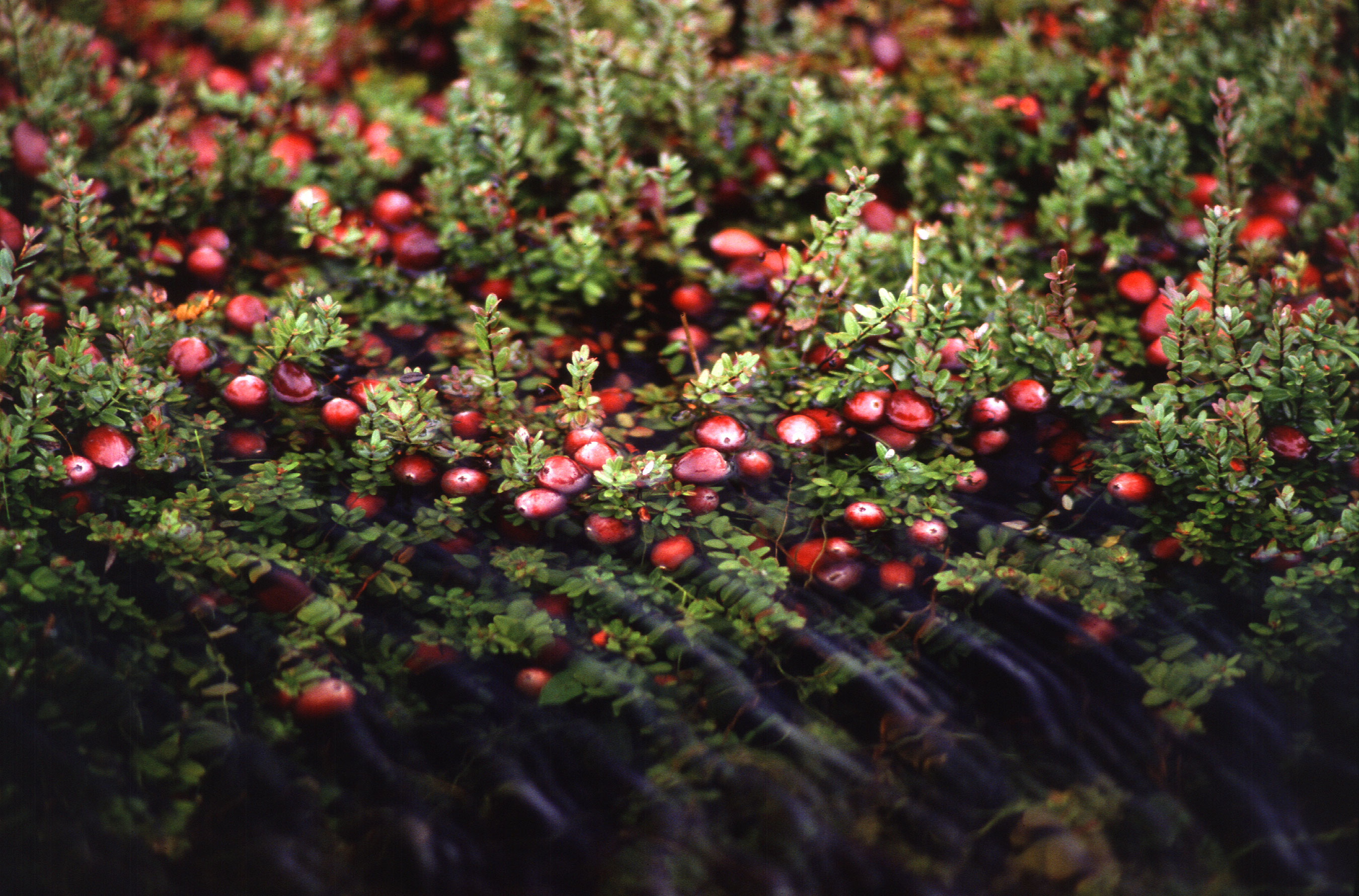 A coastal Washington cranberry bog